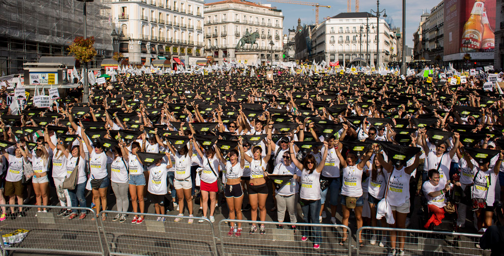 PACMA, on 10 september 2016, filled for the second consecutive year, the center of Madrid, in the largest demonstration against bullfights in the history of Spain. This event is included in the permanent campaign 'Abolish Mission' that PACMA has begun to get the prohibition of all bullfights in Spain.